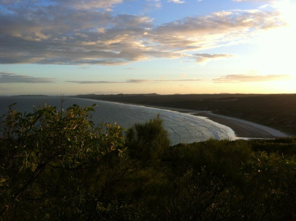 Sunset, Nine Mile Beach, Byfield National Park as seen from Stockyard Point.